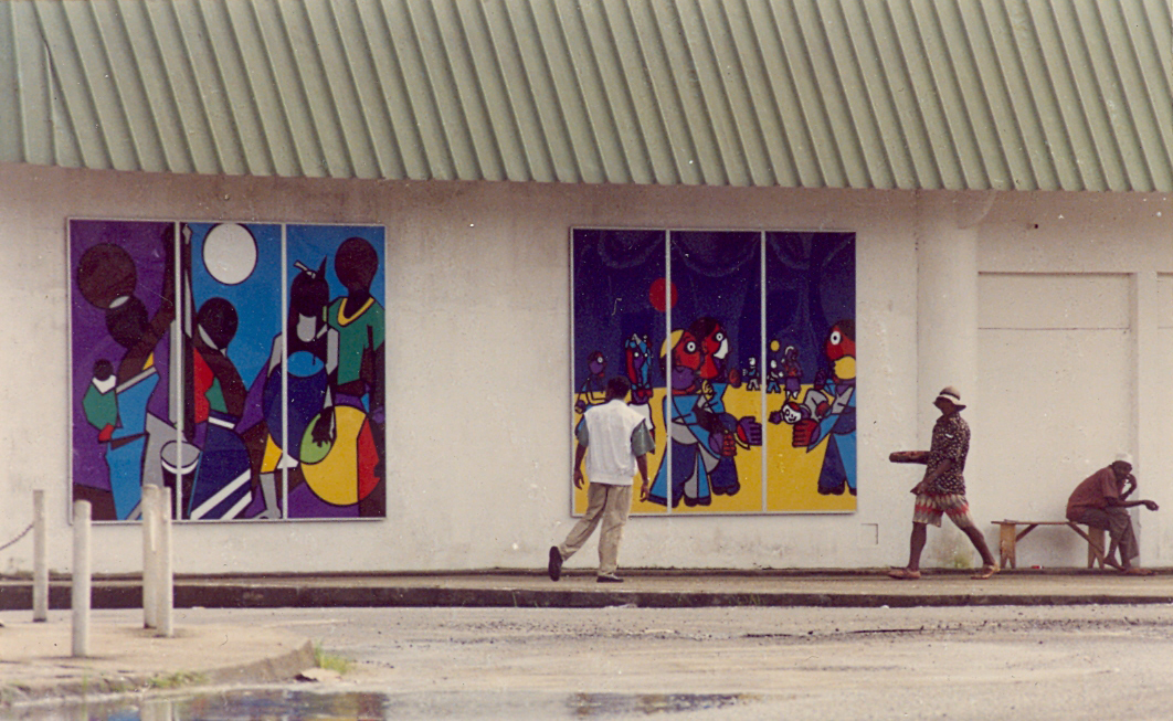 Triptychs Artventure by Etienne Delacroix and Joël Mpah Dooh. These plexiglass panels triptychs are the first public artworks offered to the city by the association doual'art in 1993, and produced with the support of the French Cultural Centre in Douala and Graphics System, Douala.